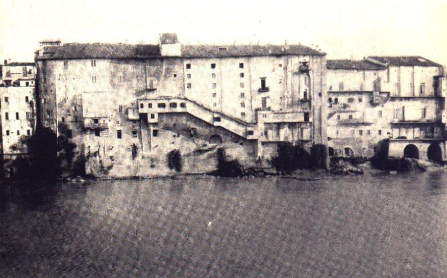 Teatro di Tor di Nona (or Teatro Apollo).